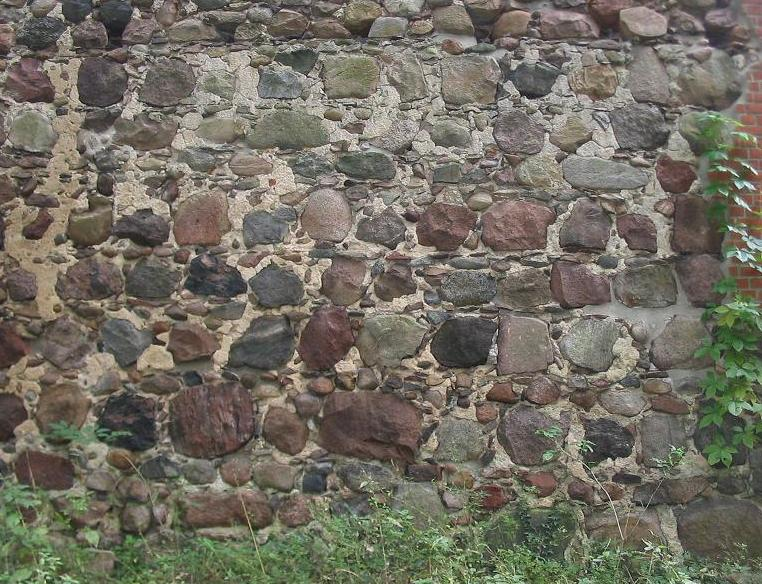 Ruin of the stonechurch in the abandoned village Dangelsdorf, situated in the forest „Nonnenheide“; built probably in the first half of the 14th century. In the south of the abandoned village was founded a new village Dangelsdorf, which is today a part of the municipality Görzke in the district Potsdam Mittelmark, state Brandenburg, Germany. The village appertains to the nature park Naturpark Hoher Fläming.